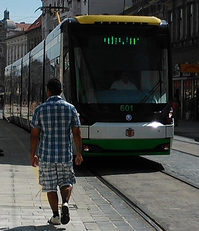 Skoda tram on trial run, Miskolc, Hungary